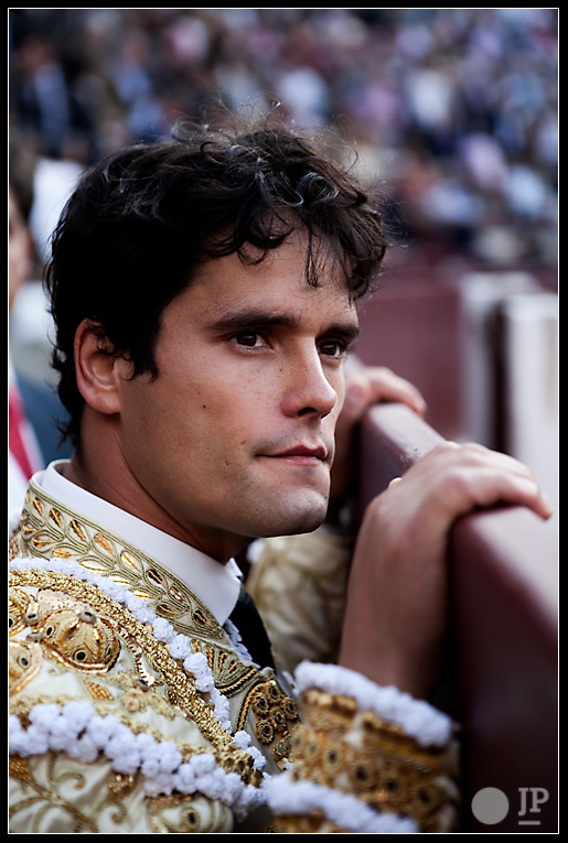 Miguel Abellan taken with a Canon EOS 5D Mark II